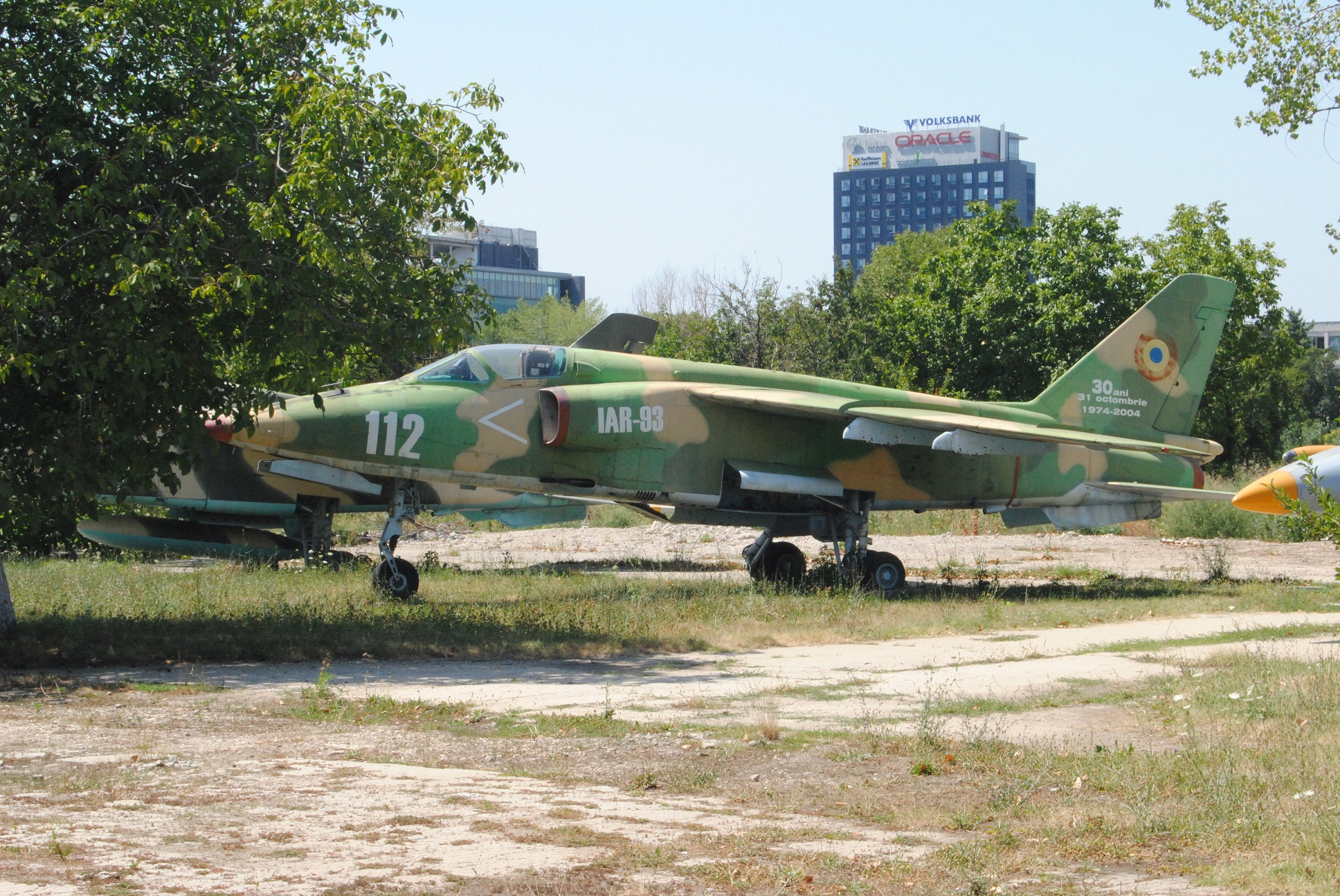 IAR 93 at the National Museum of Romanian Aviation in Bucharest